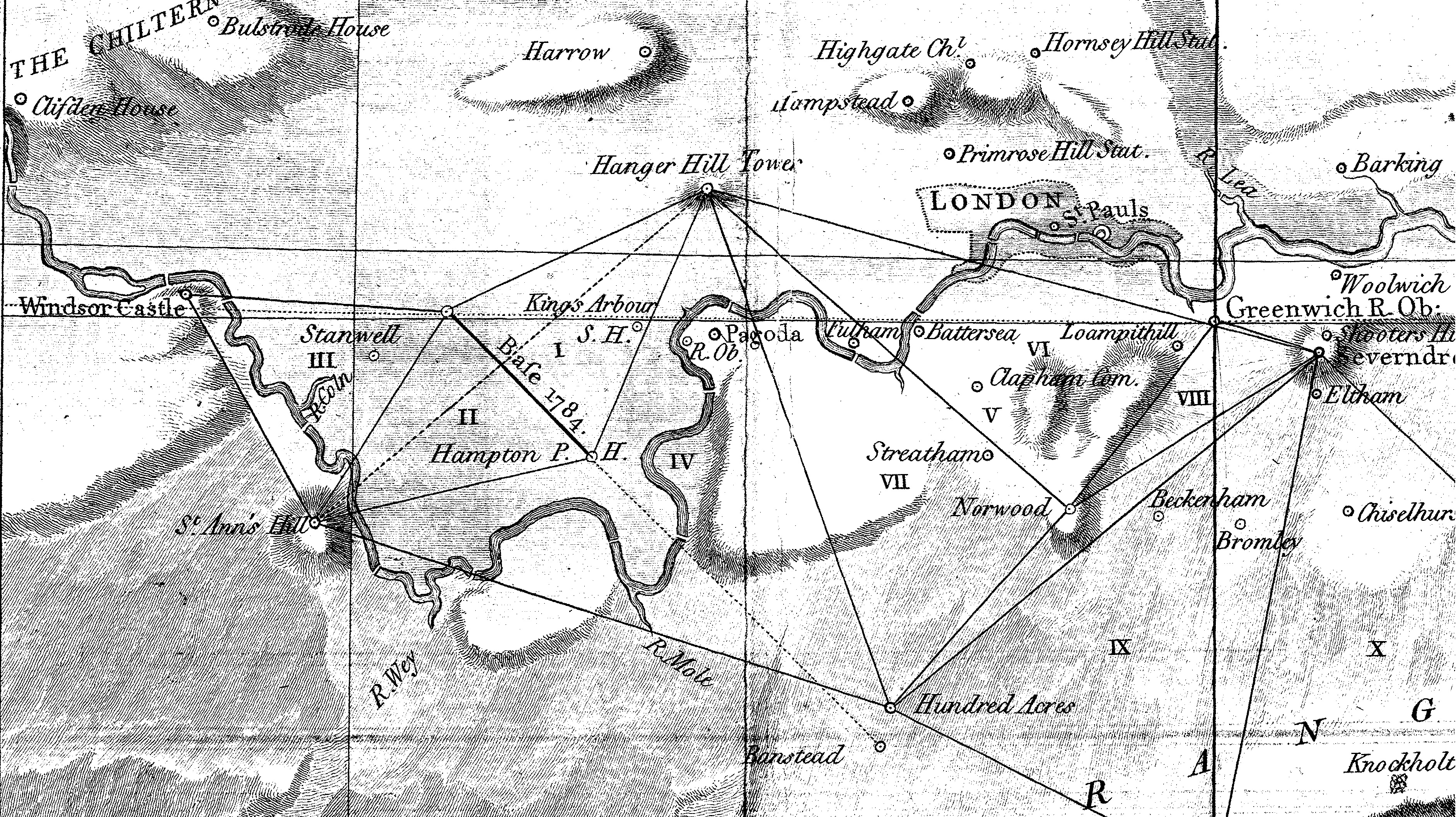 The triangulation mesh of the Anglo-French survey 1784-1790